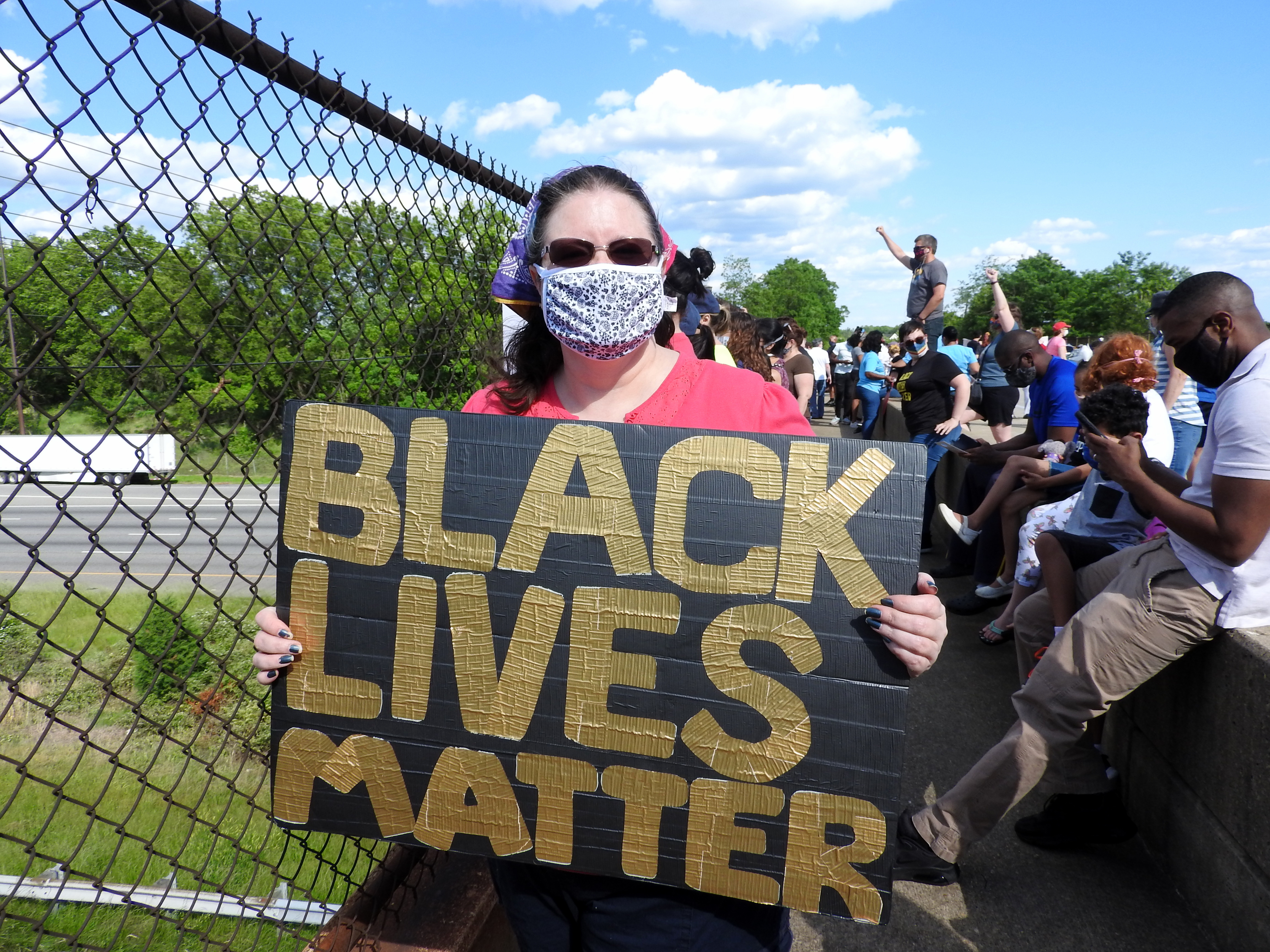 Black Lives Matter vigil in on the Gorman Road overpass over I-9 in Howard County, Maryland on May 31, 2020. Located at border of Laurel, North Laurel, and Savage, Maryland.